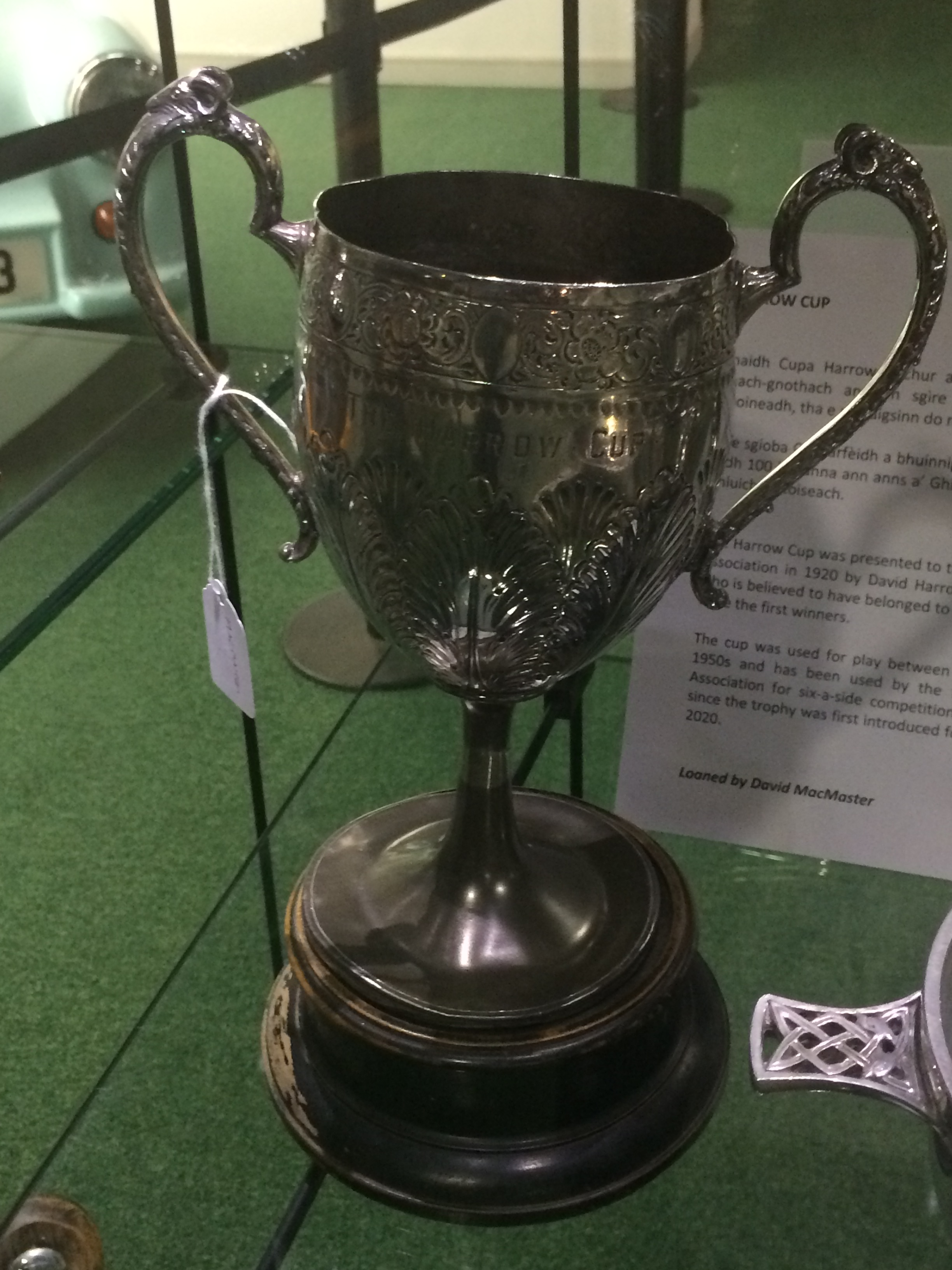 A Shinty Trophy played for at the Ross-shire Camanachd Sixes